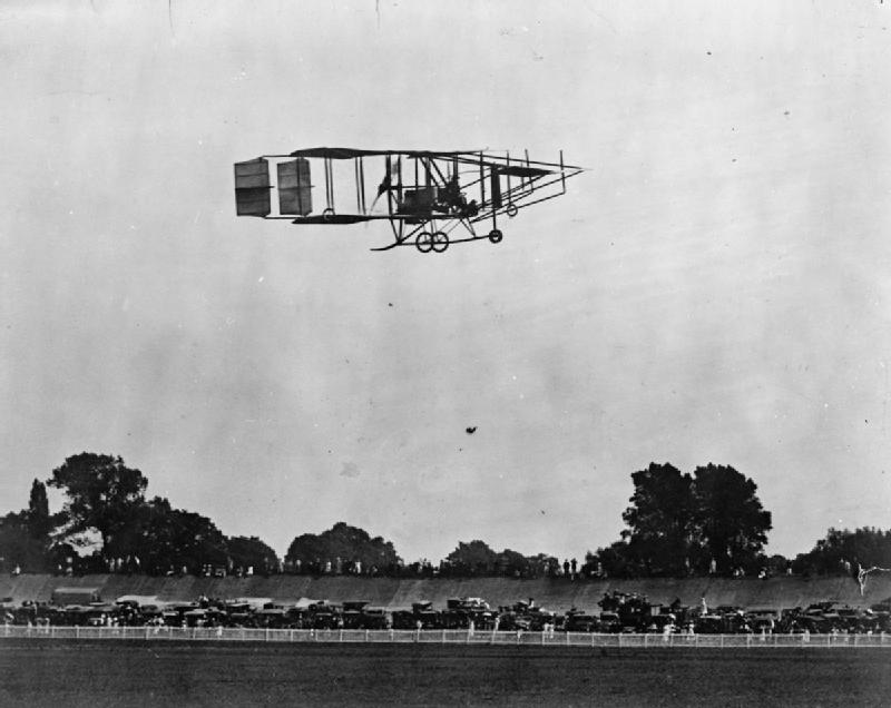 Aviation in Britain Before the First World War- the work of Samuel Franklin Cody in Airship, Kite and Aircraft Aeronautics 1903 - 1913 Cody Aircraft Mark III passes over Brooklands race track, possibly at the start of the 1911 Daily Mail Circuit of Britain Race.